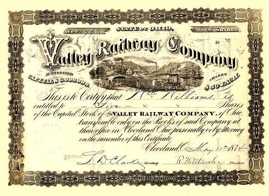 Signed 1880 stock certificate of the Valley Railway, a railroad operating in the state of Ohio in the United States.